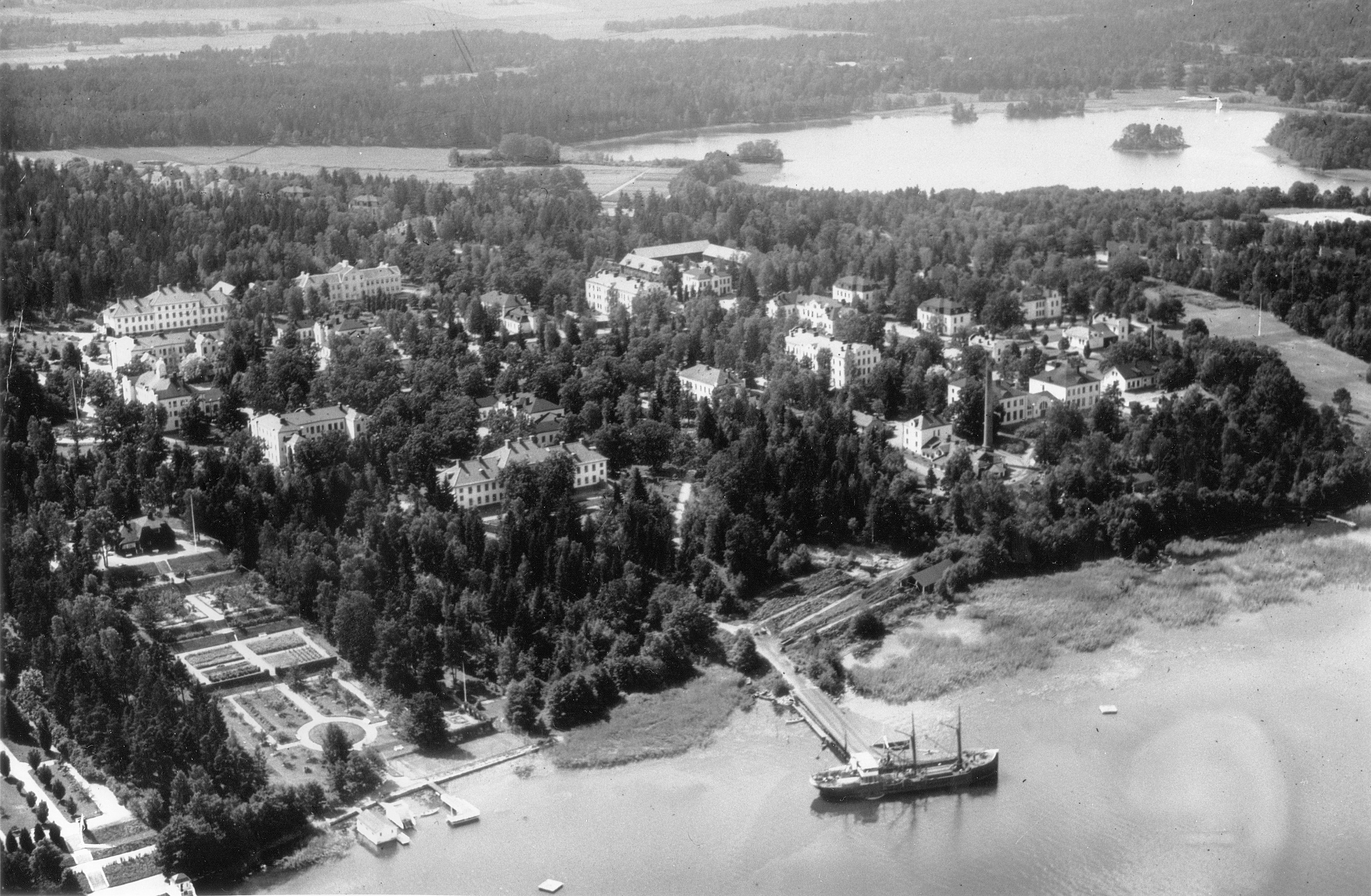 Sankta Gertruds sjukhus ("Saint Gertrude's psychiatric hospital"), Västervik, Sweden. Aerial photo. The hospital was closed in the 1990s.